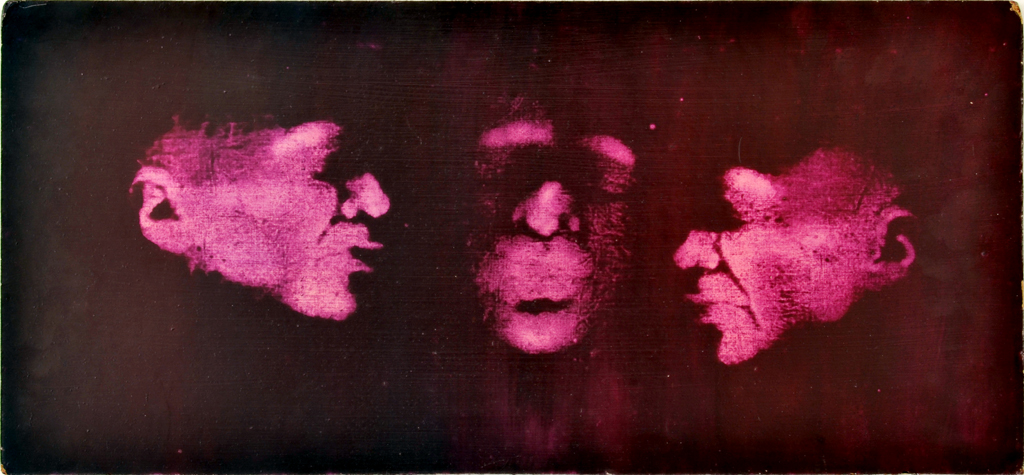 Rudolf Němec, Giving my head to a friend (1966-67), email, hardboard